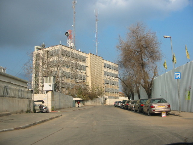 IBA (Israel_Broadcasting_Authority) head office